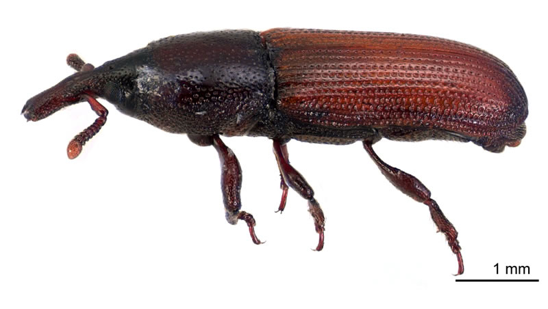 Lateral view of a specimen of Mesites pallidipennis photographed by Landcare Research New Zealand Ltd.